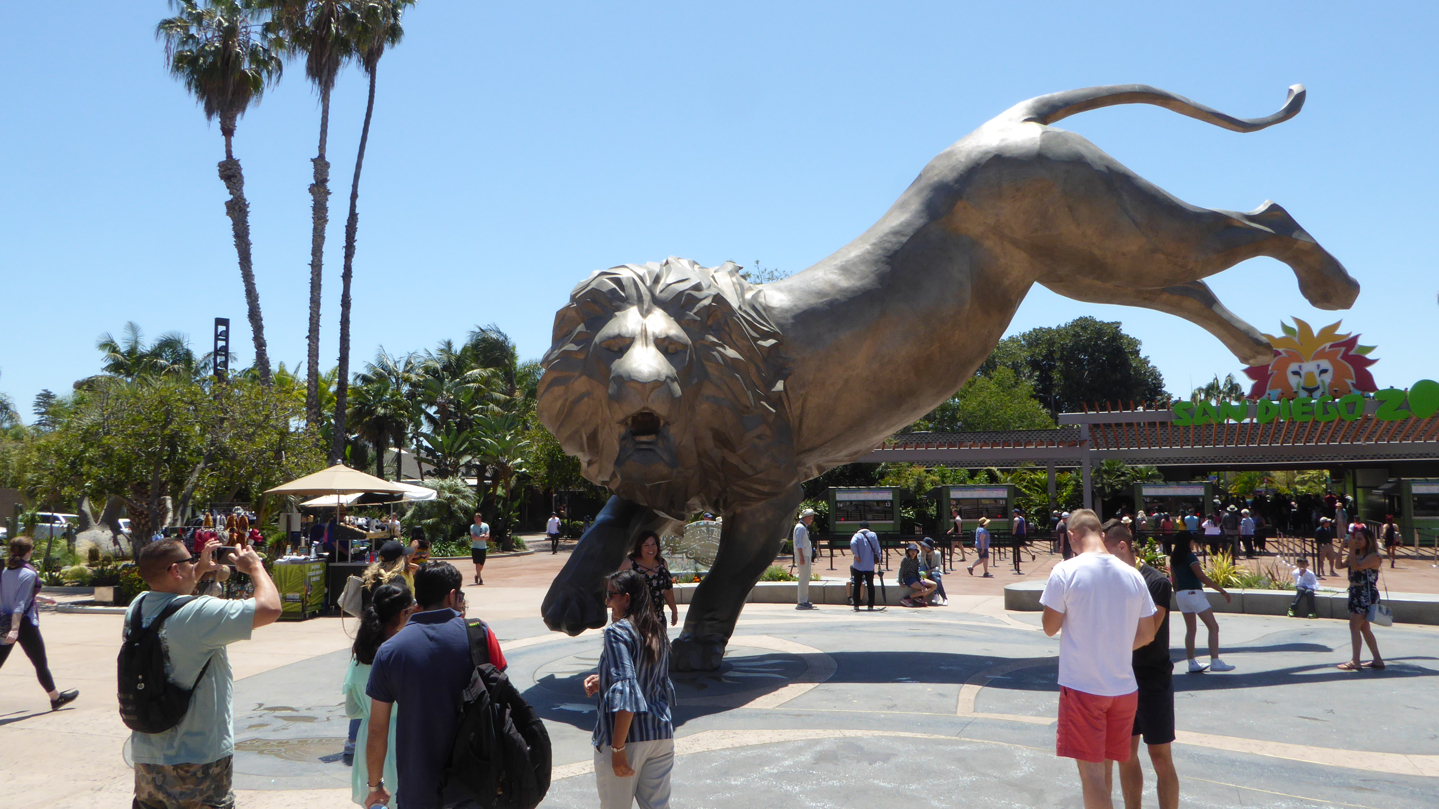 San Diego Zoo sculpture at entrance "Rex's Roar" from east - 3 June 2018